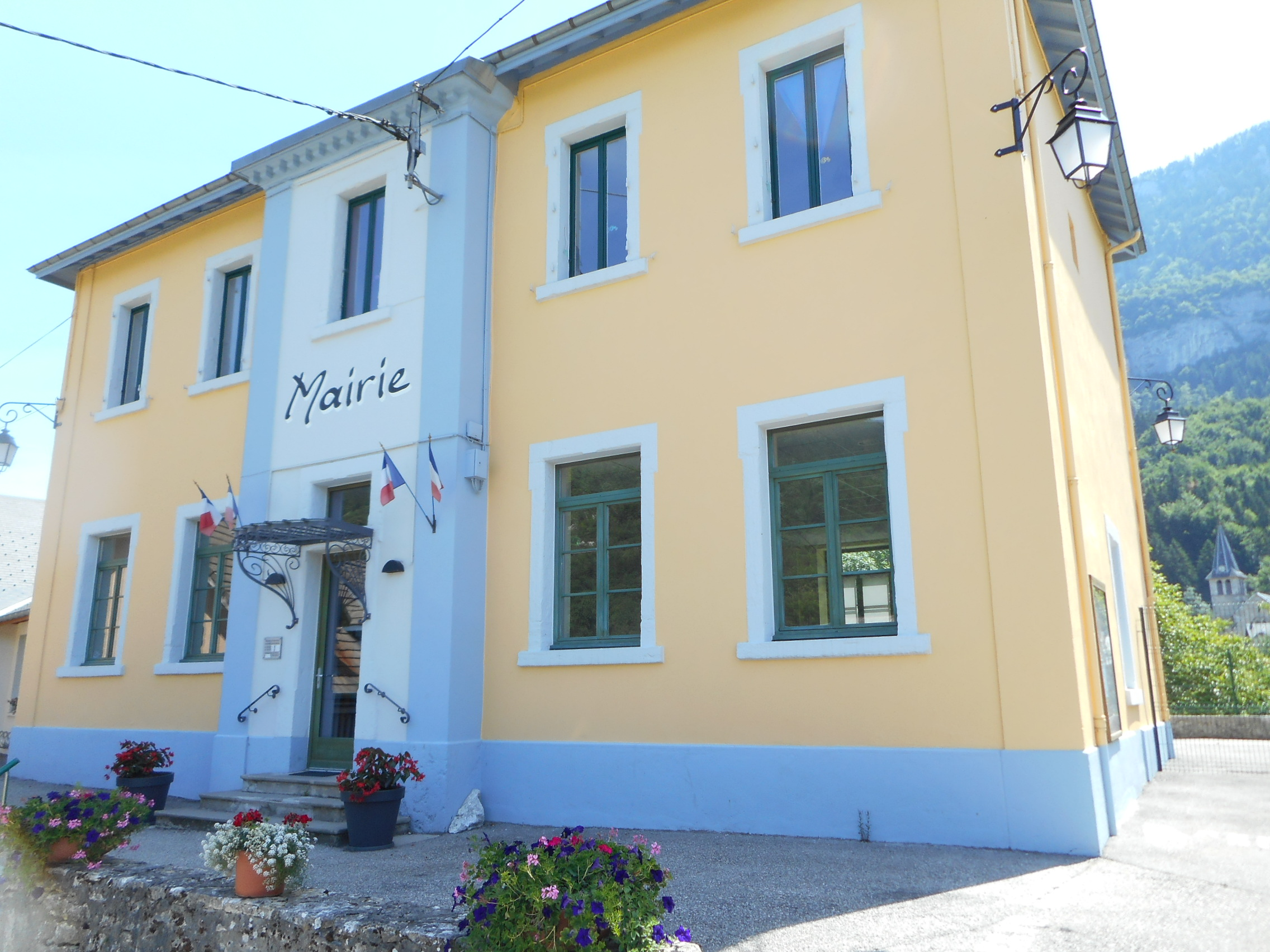 Town hall